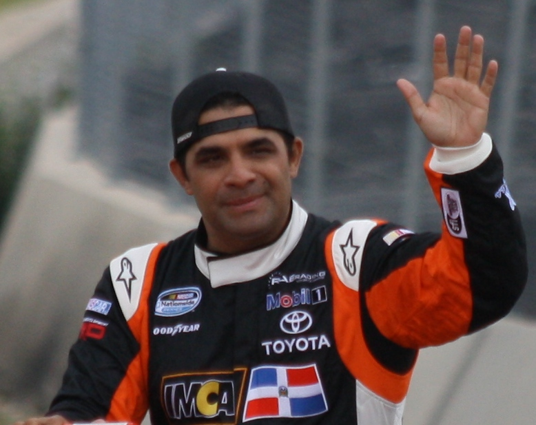 NASCAR driver Victor Gonzalez, Jr. during driver's introductions at the 2012 Sargento 200 Nationwide Series race at Road America.